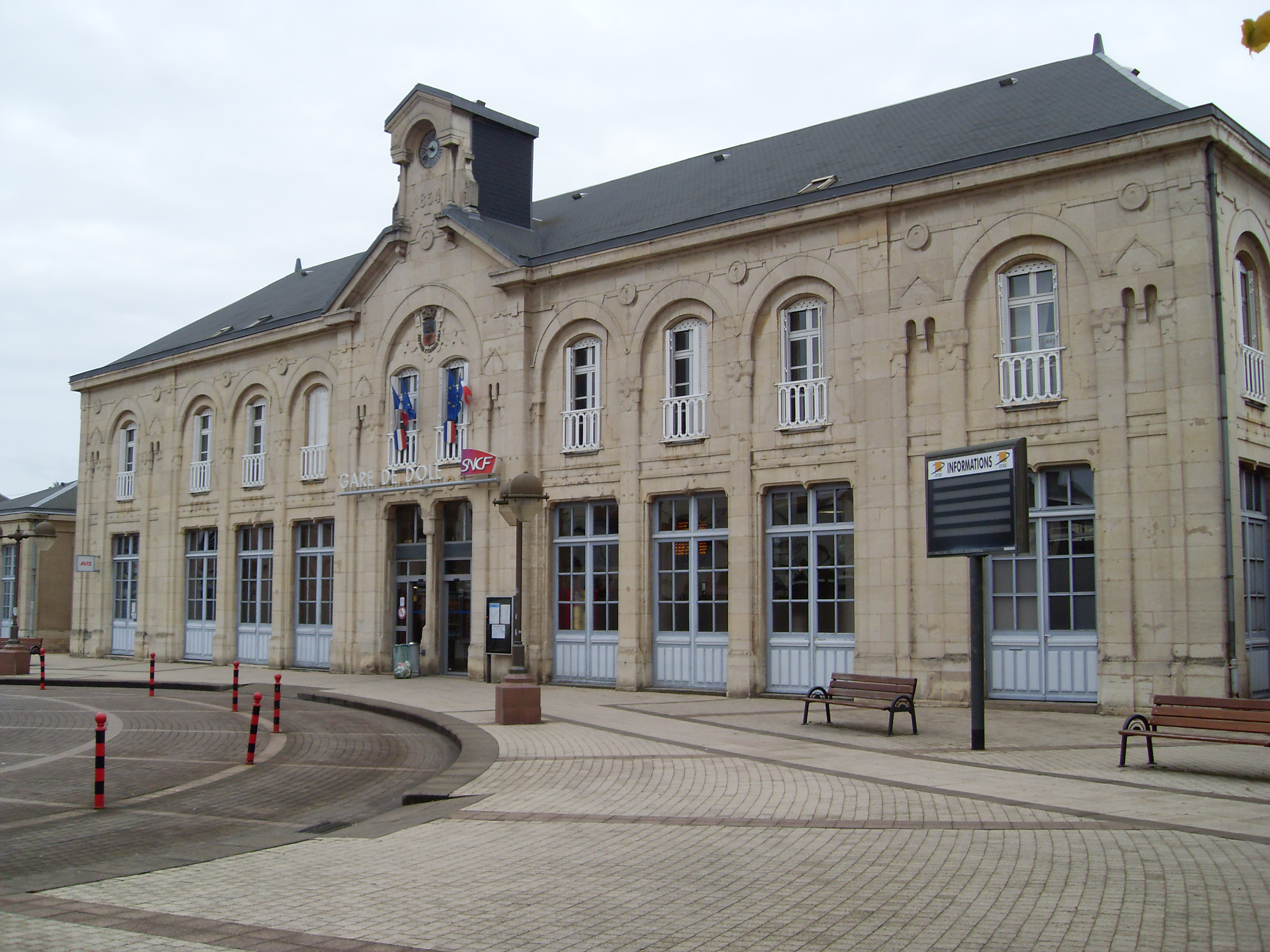 Train station of Dole, Jura.